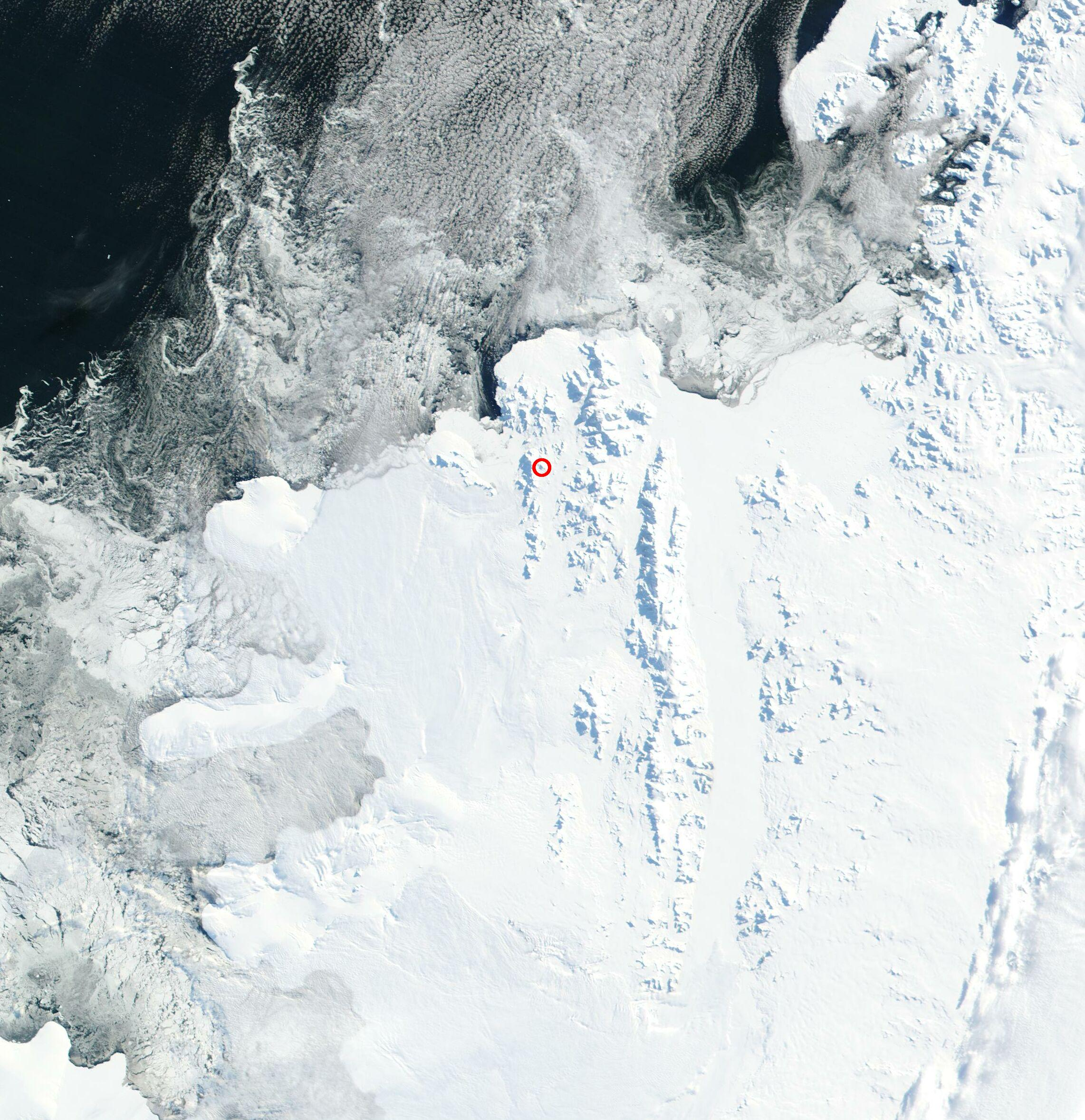 Source: 2002 NASA Visible Earth satellite image Bryan Coast, English Coast, Alexander Island, Fallieres Coast, and Bellingshausen Sea, Antarctica. Fragment edited and published by Apcbg 13:29, 22 July 2006 (UTC).